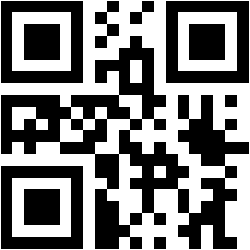 The word "LOVE" expressed as a QR code.